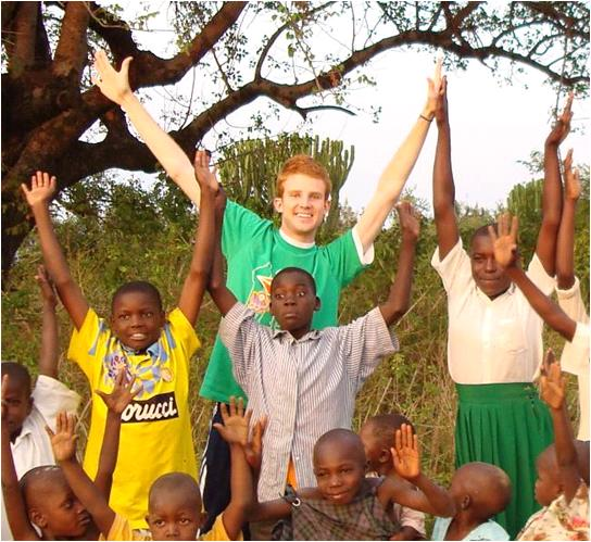 WISER - Co-Founder Andy Cunningham